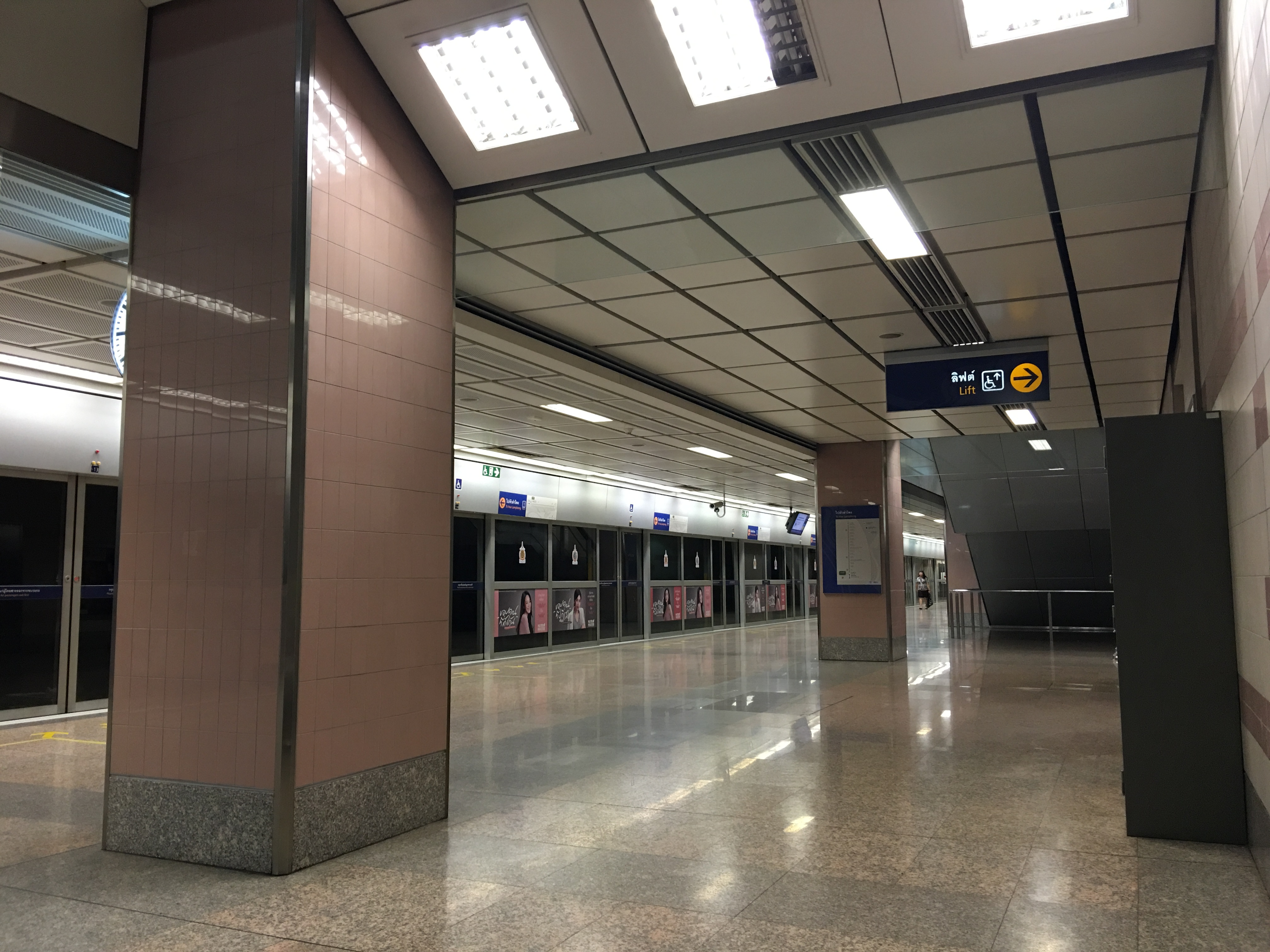 The platform 1 of Sam Yan Station